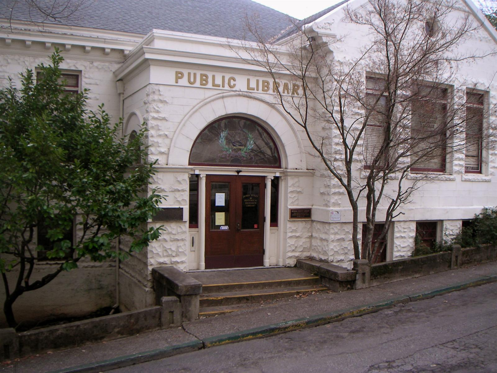 The NRHP-listed Nevada City Free Public Library in Nevada City, California.